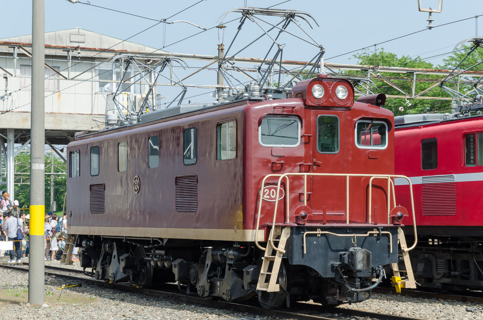 Chichibu Railway Class DeKi 200 electric locomotive DeKi 201 at Hirosegawara Depot open day in revised Paleo Express livery